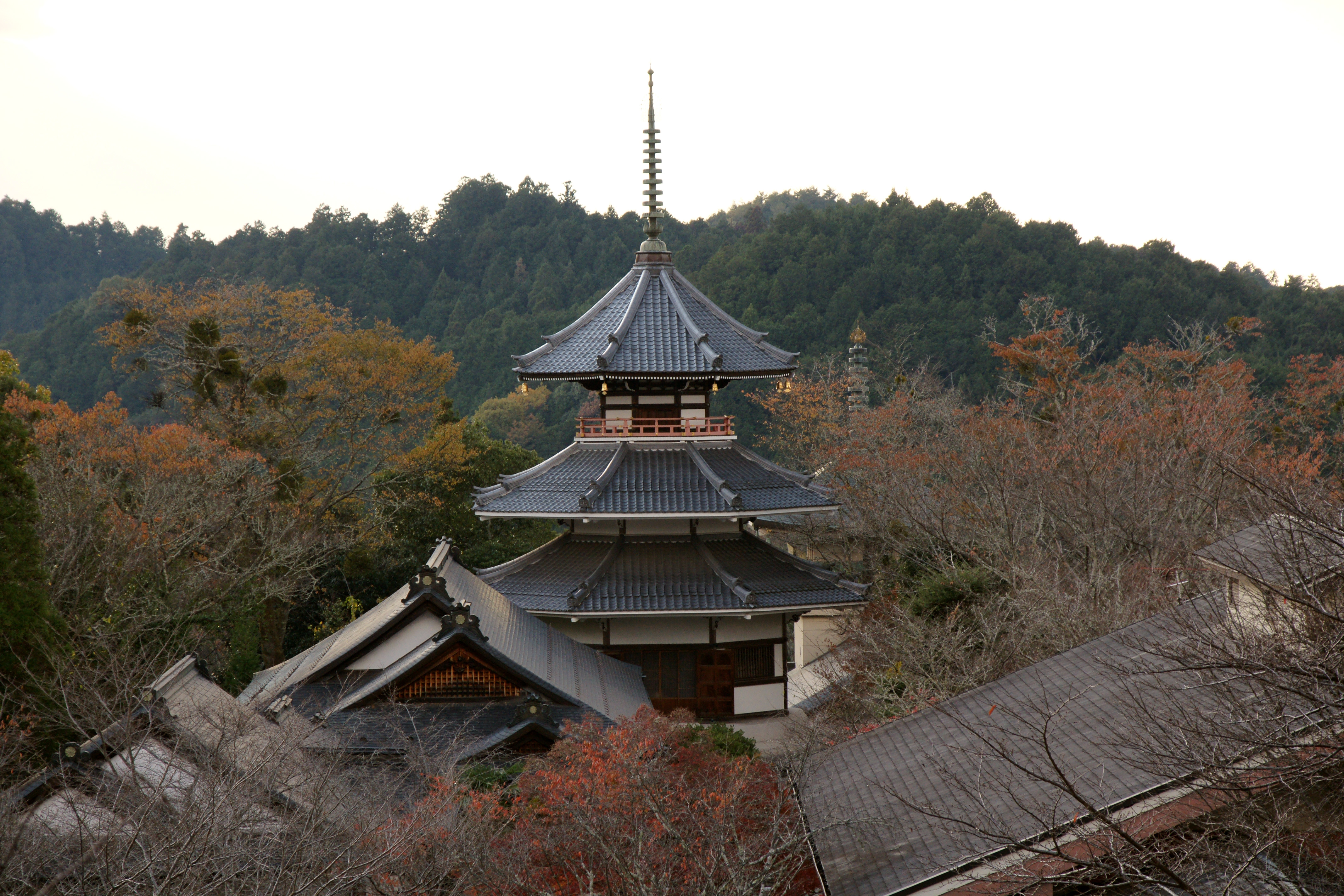 Myohoden in Yoshino, Nara prefecture, Japan